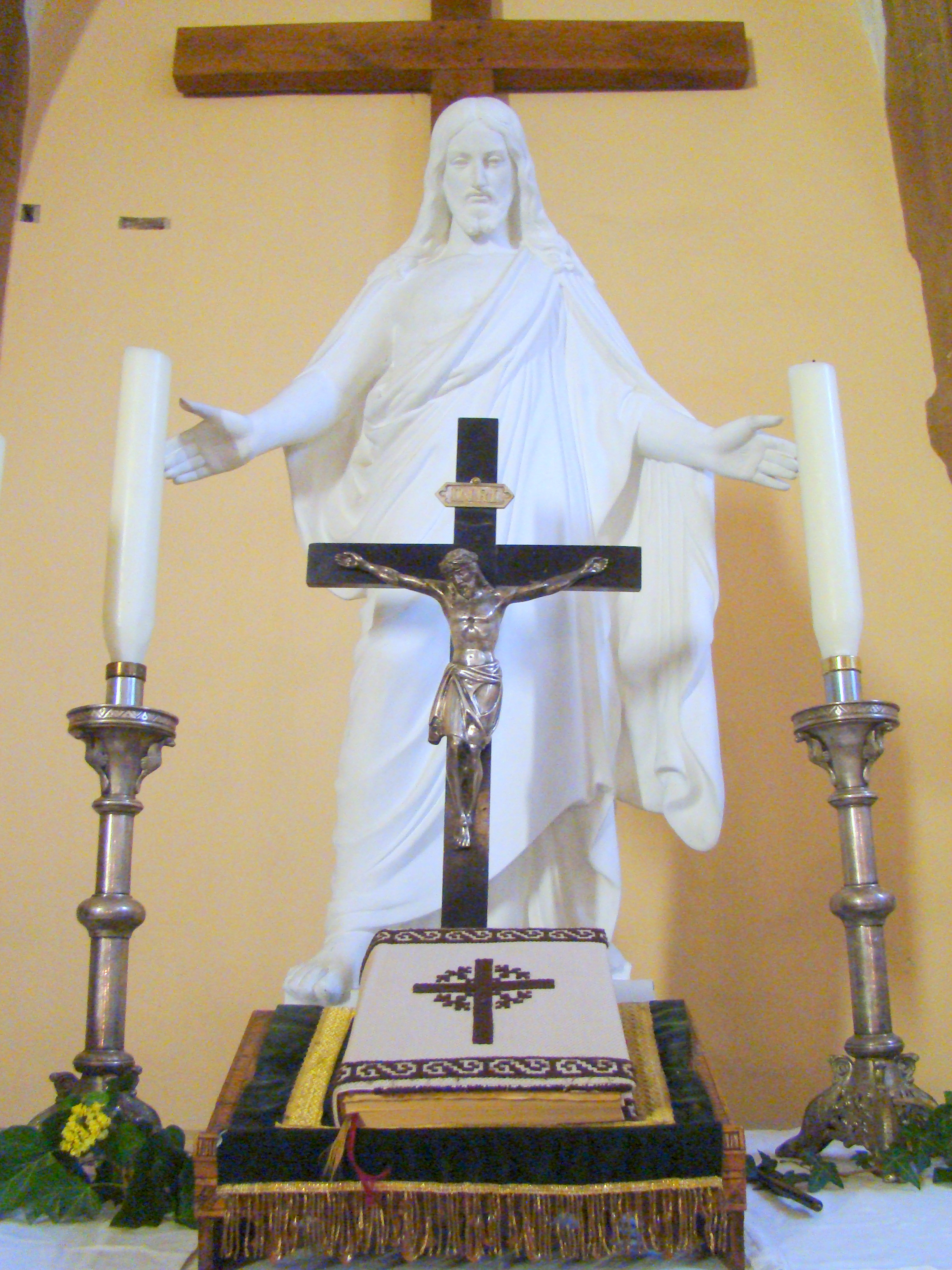 Fortified church in Vulcan, Brașov County, Romania